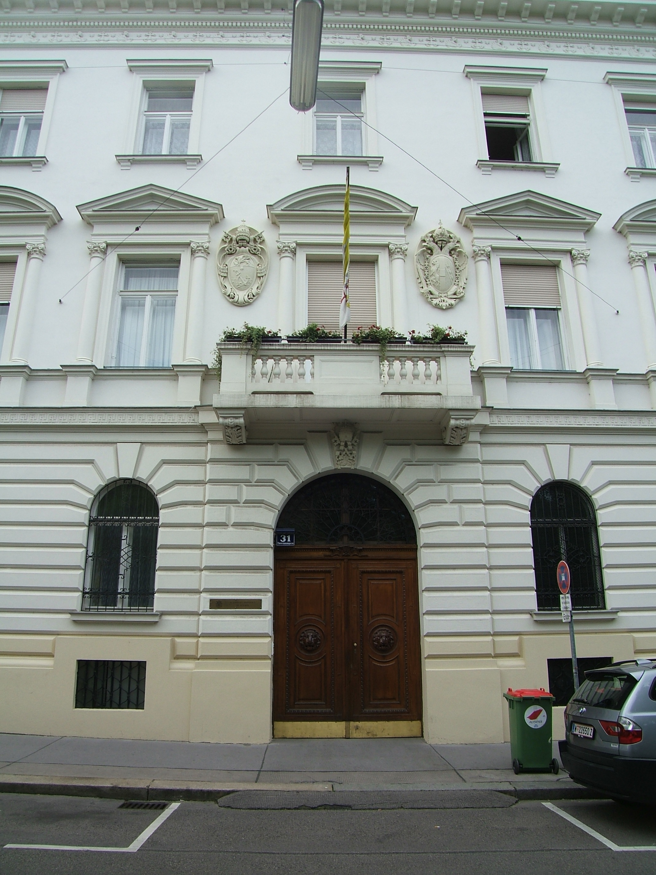 The portal of the apostolic nunciature in Vienna, 4th district, Theresianumgasse 31